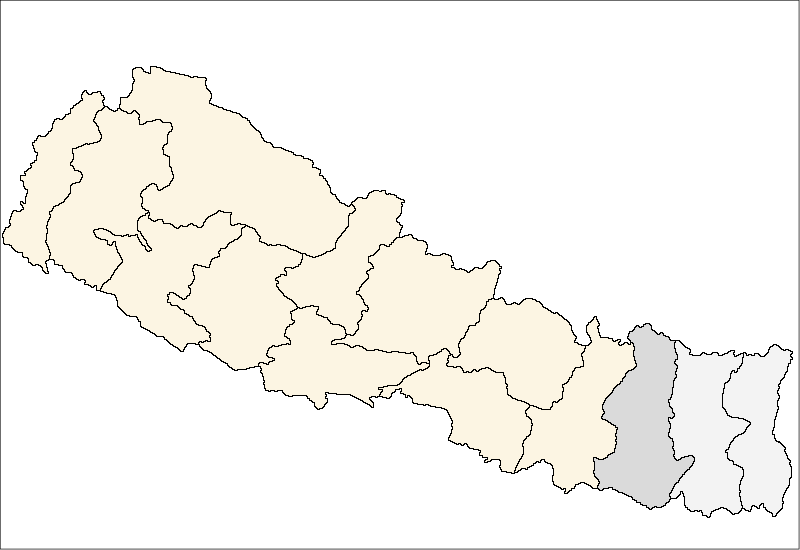 FrenchCarte de localisation de lazone de Sagarmatha(wp-FR),au Népal (wp-FR).EnglishLocation map ofSagarmatha Zone(wp-EN),in Nepal (wp-EN).